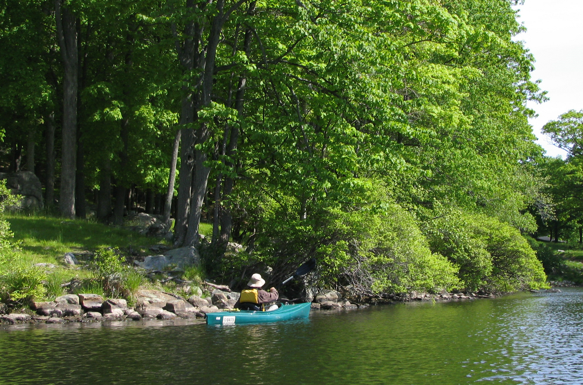 Recreational Kayaking in Harriman State Park, Sebago Lake. Taken by User:Mwanner, 30 May, 2005